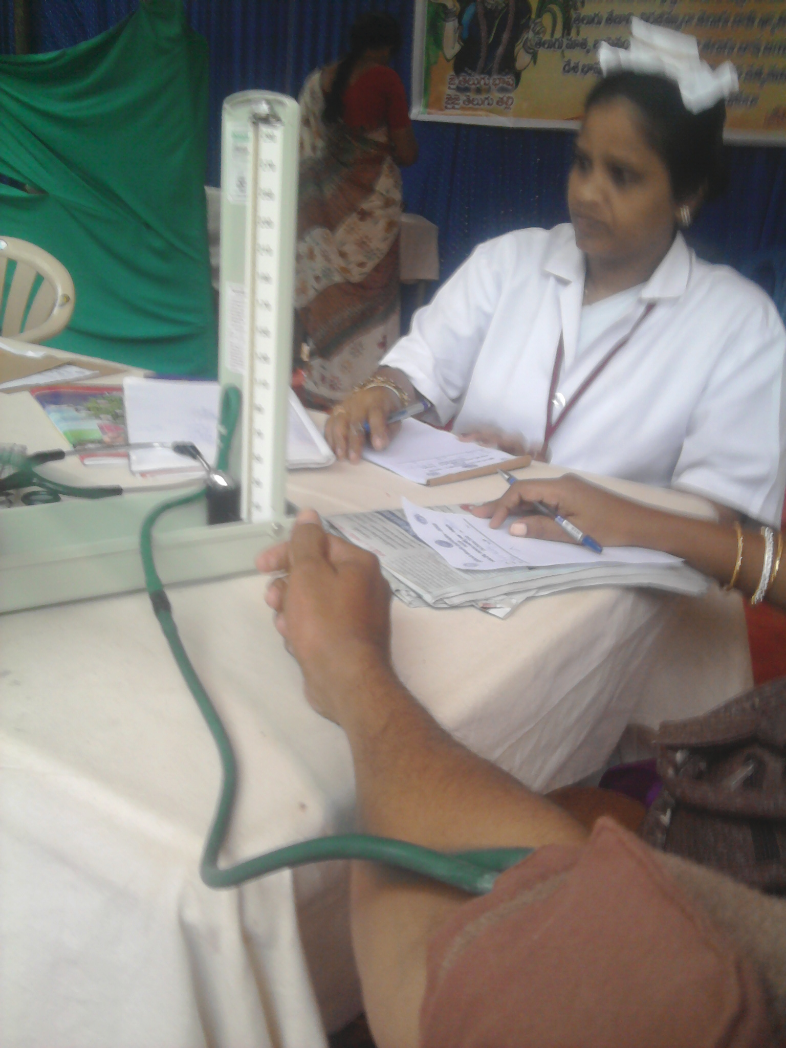 Blood pressure measure with Sphygmomanometer